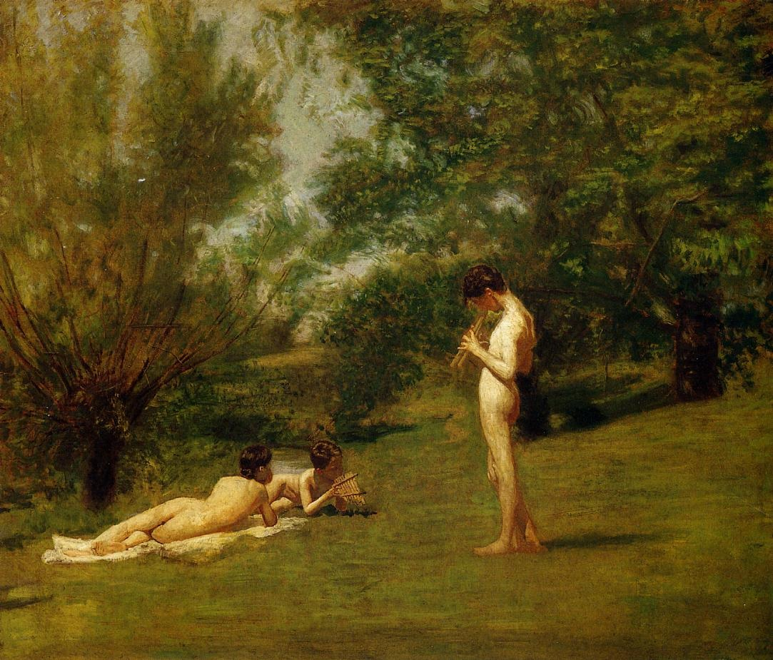 Thomas Eakins's art